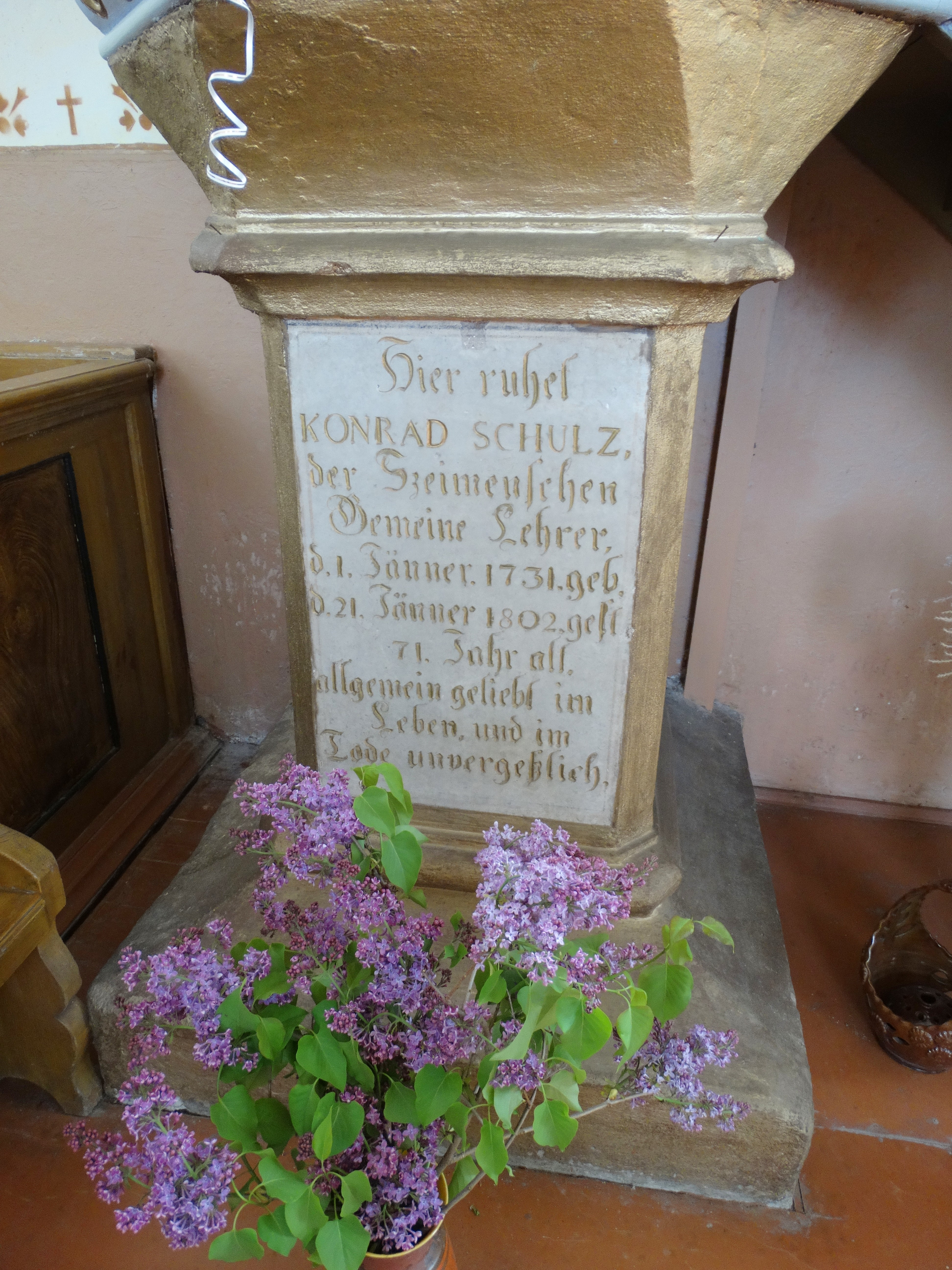 Evangelical Lutheran Church, tomb of Konrad Schulz, Žeimelis, Lithuania